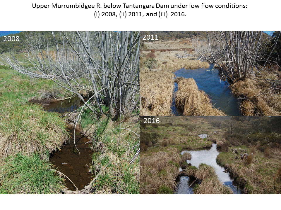 Changes in the instream habitat in the Upper Murrumbidgee River below Tantangara Dam, 2008, 2011 and 2016.